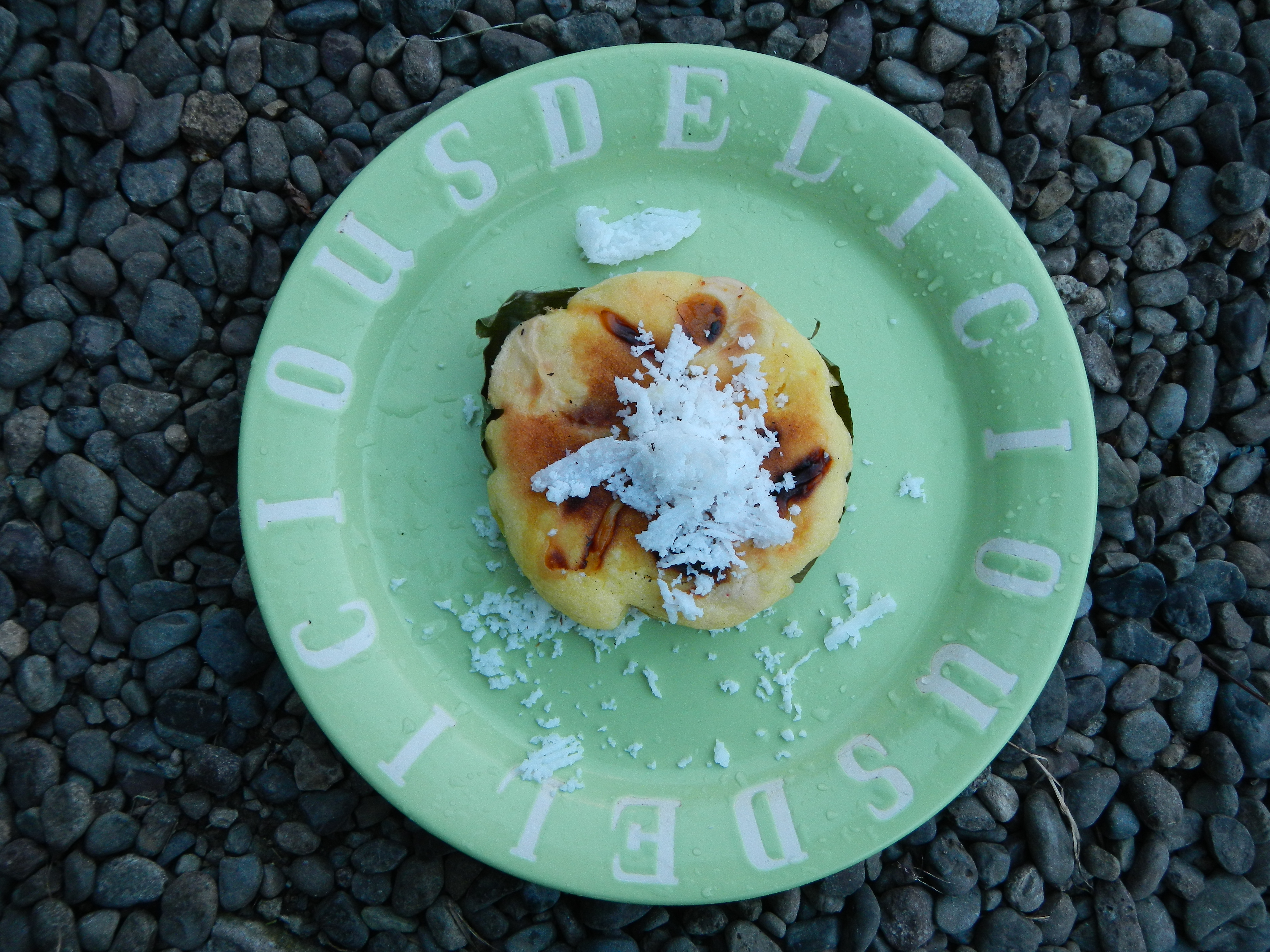 Bibingka